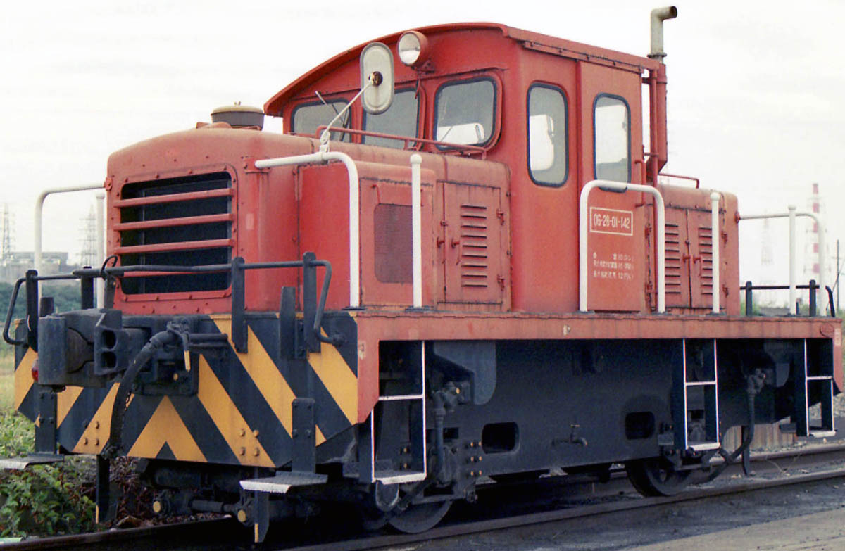 JNR Type F6 10t Diesel Switcher at JNR Shikama-Koh Station